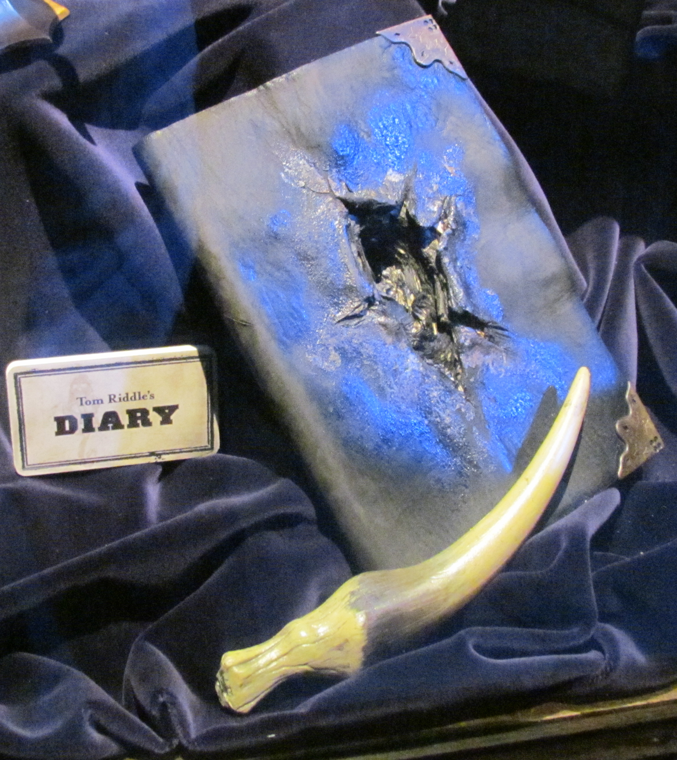 Tom Riddle's Diary (horcruxe)